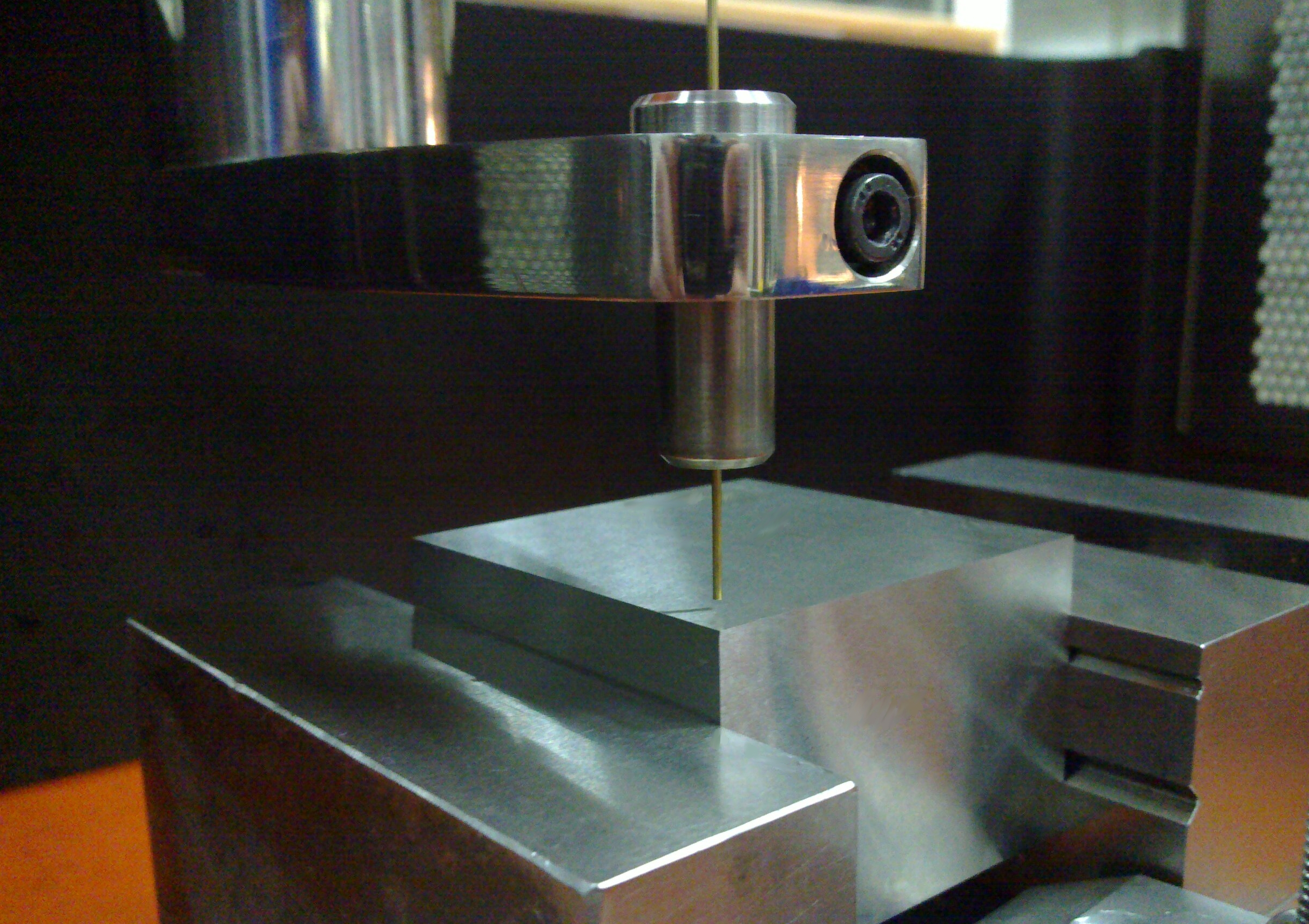 Small hole drilling EDM machines with brass electrode 1 mm. guide for electrode and the workpiece that will drill.